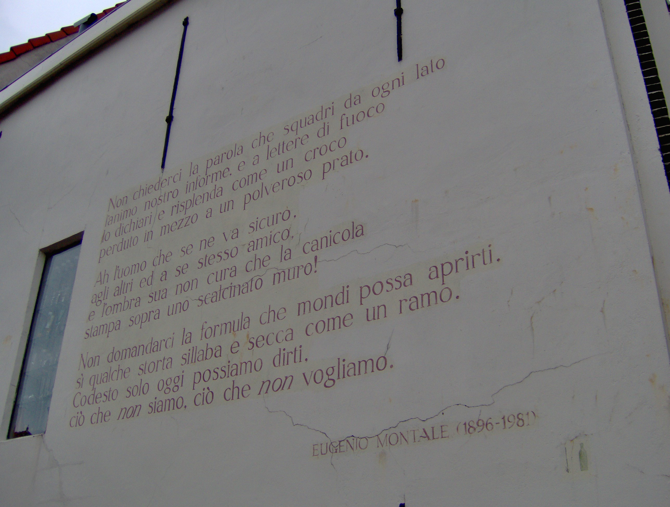 The poem without a title Non chiederci la parola che squadri da ogni lato (Ossi di seppia, 1925) of the Italian poet Eugenio Montale on the wall of the building at Oude Rijn 138 in Leiden, The Netherlands